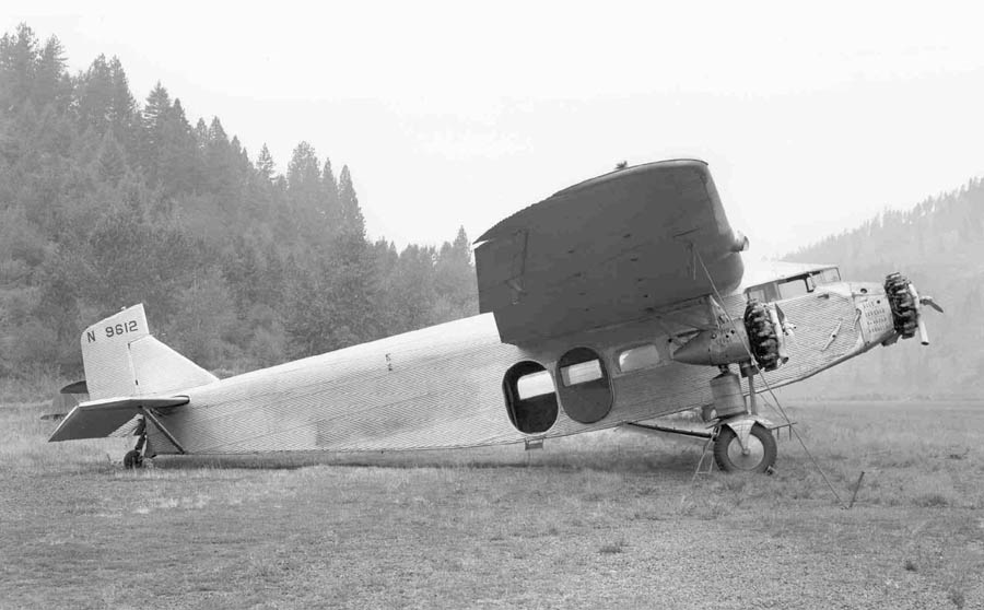 Orofino, Idaho, August 1952.